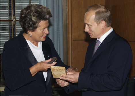 HELSINKI. The speaker of the Finnish Parliament, Riitta Uosukainen, awarding a commemorative medal to President Putin.